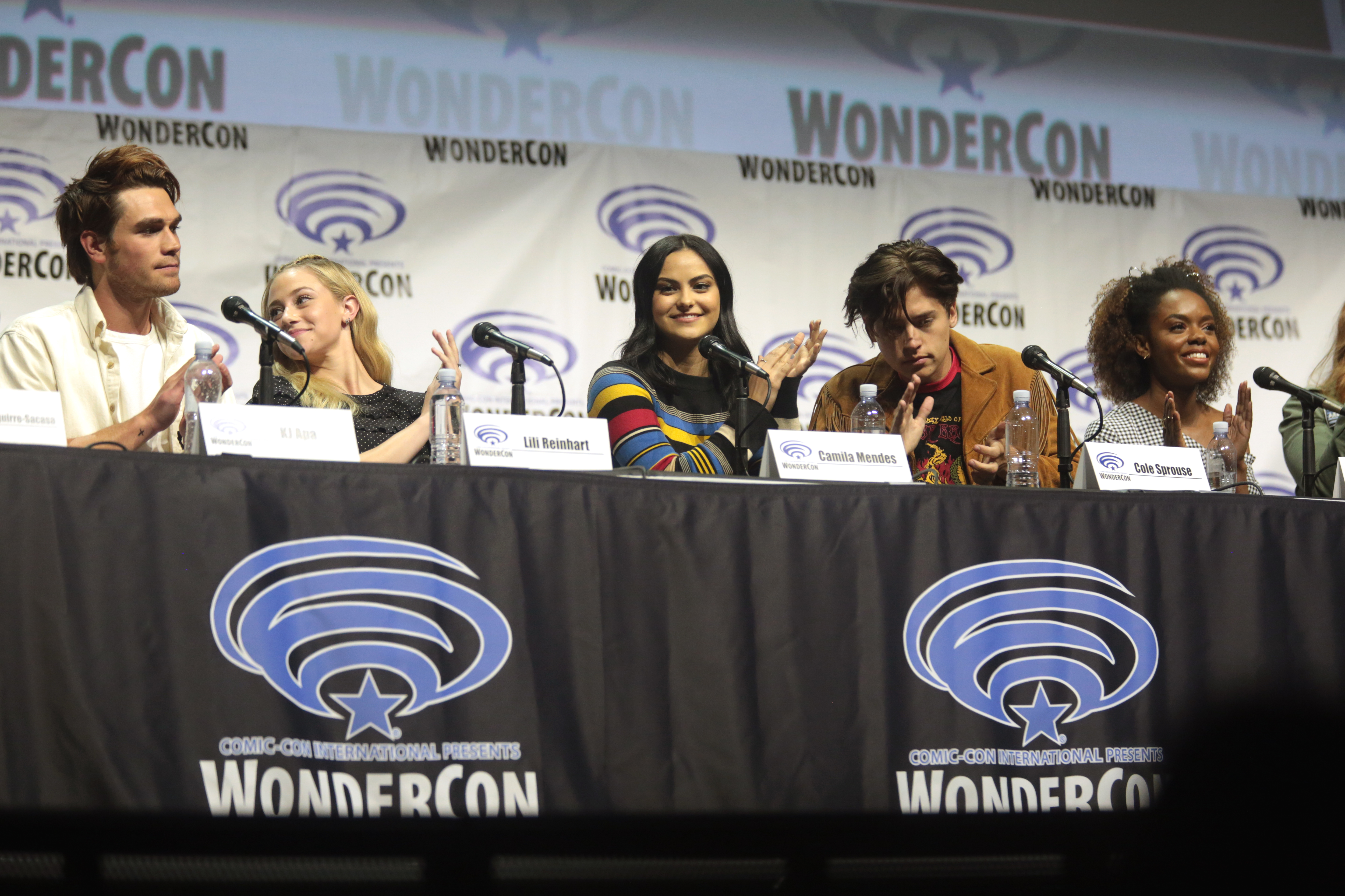 KJ Apa, Lili Reinhart, Camila Mendes, Cole Sprouse and Ashleigh Murray speaking at the 2017 WonderCon, for "Riverdale", at the Anaheim Convention Center in Anaheim, California.